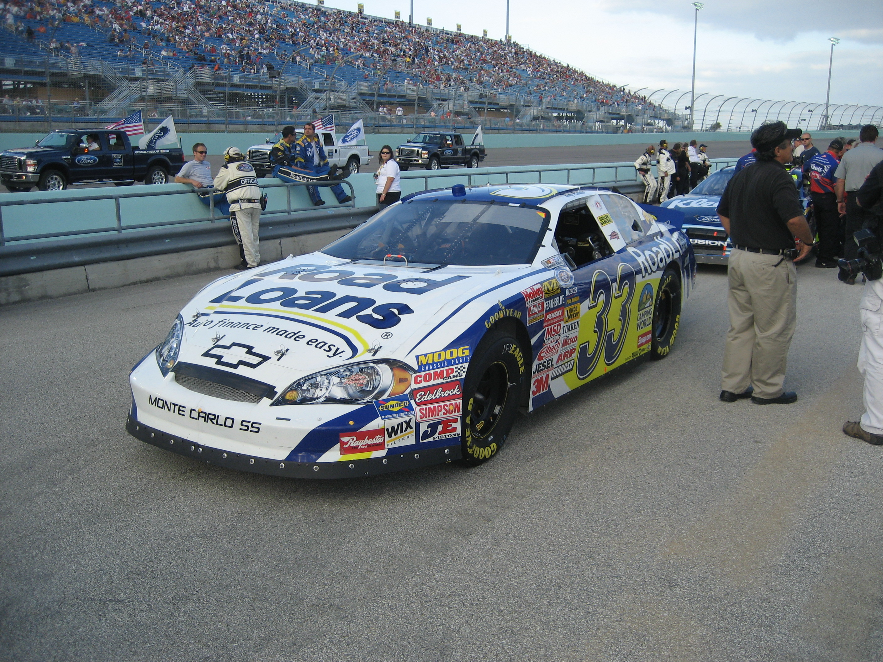 Tony Raines' car on the grid before the 2007 Ford 300 at Homestead-Miami Speedway